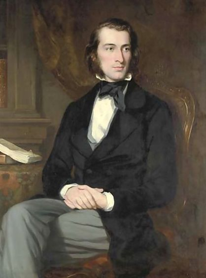 Portrait Of Matthew Piers Watt Boulton by Sir Francis Grant, c. 1840, England